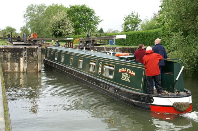 A narrowboat going upriver on the Thames, entering Eynsham Lock in Oxfordshire